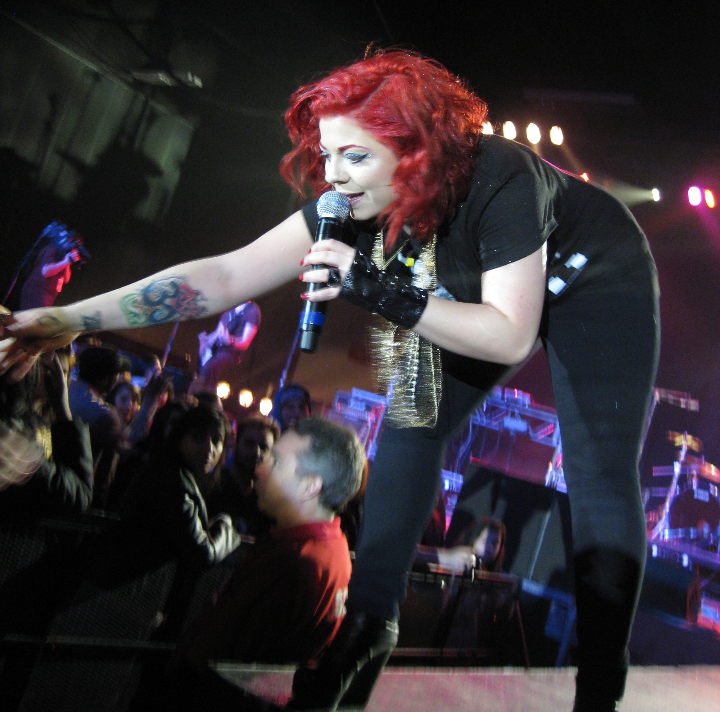 Shiloh performing at the Edmonton Expo Centre.